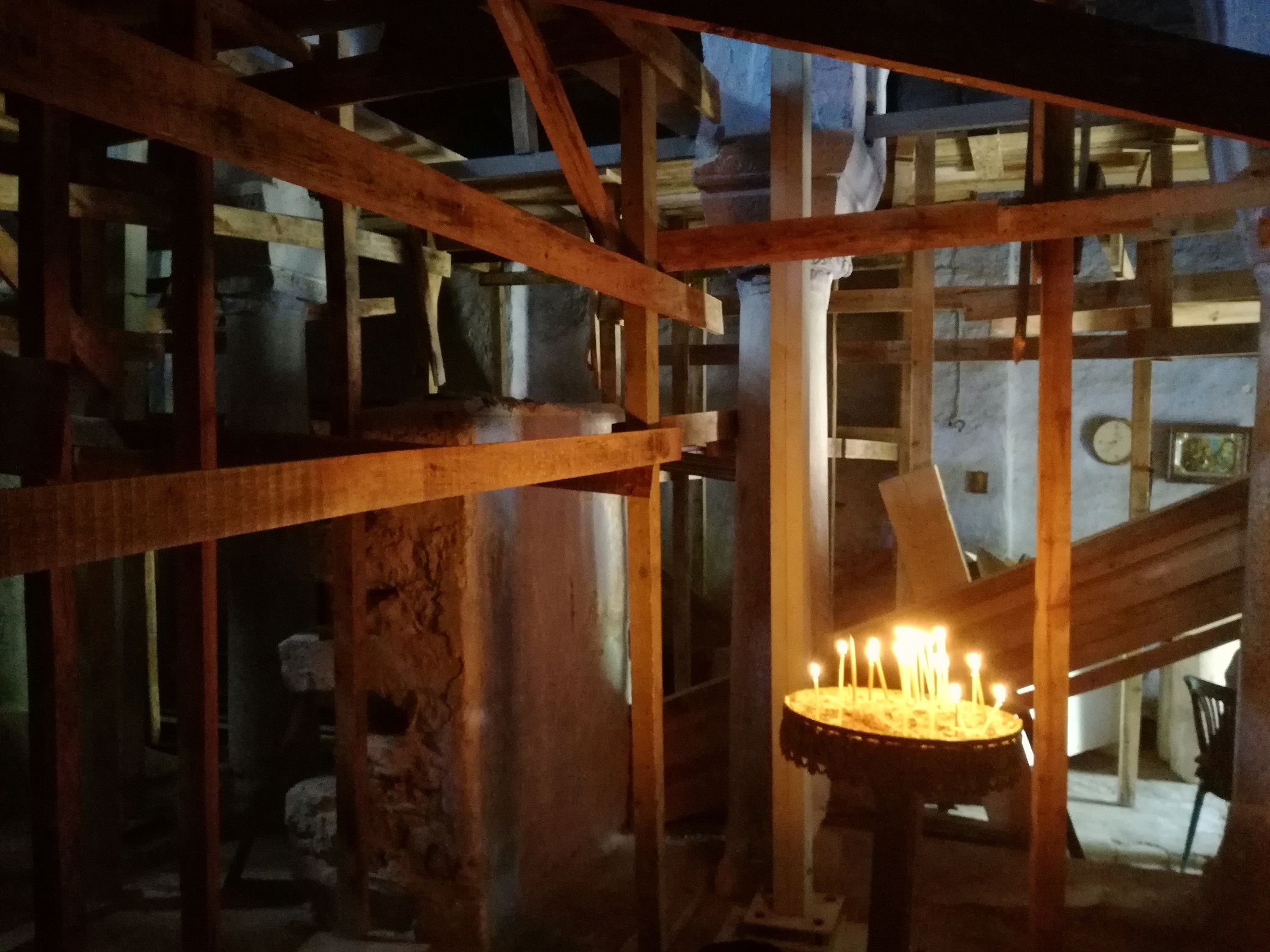 The church is held together with wooden props and scaffolding